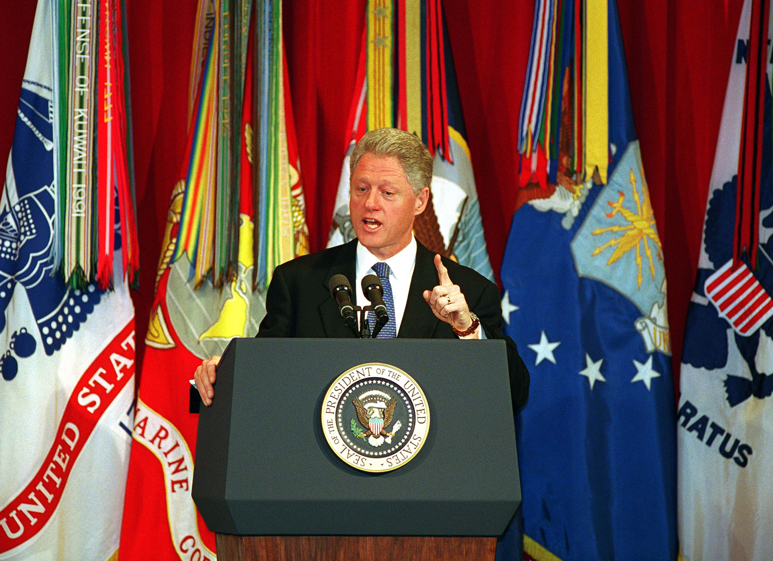 President Bill Clinton addresses an audience of military personnel and civilian Department of Defense employees at the Pentagon on Feb. 17, 1998. The internationally televised speech, in part a warning to Saddam Hussein, was in essence an explanation to the American people of why military action may be required against Iraq.